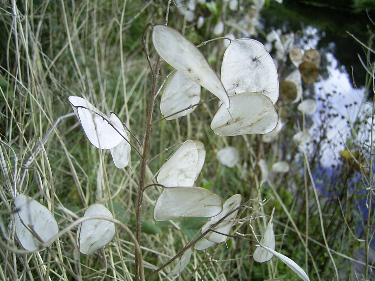 This image shows the pretty fruits of Lunaria annua. The photo was taken by me on August 28, 2004. On 2nd thought, i am not sure about that annua. It may be rediviva, i havent seen this specimen while flowering.